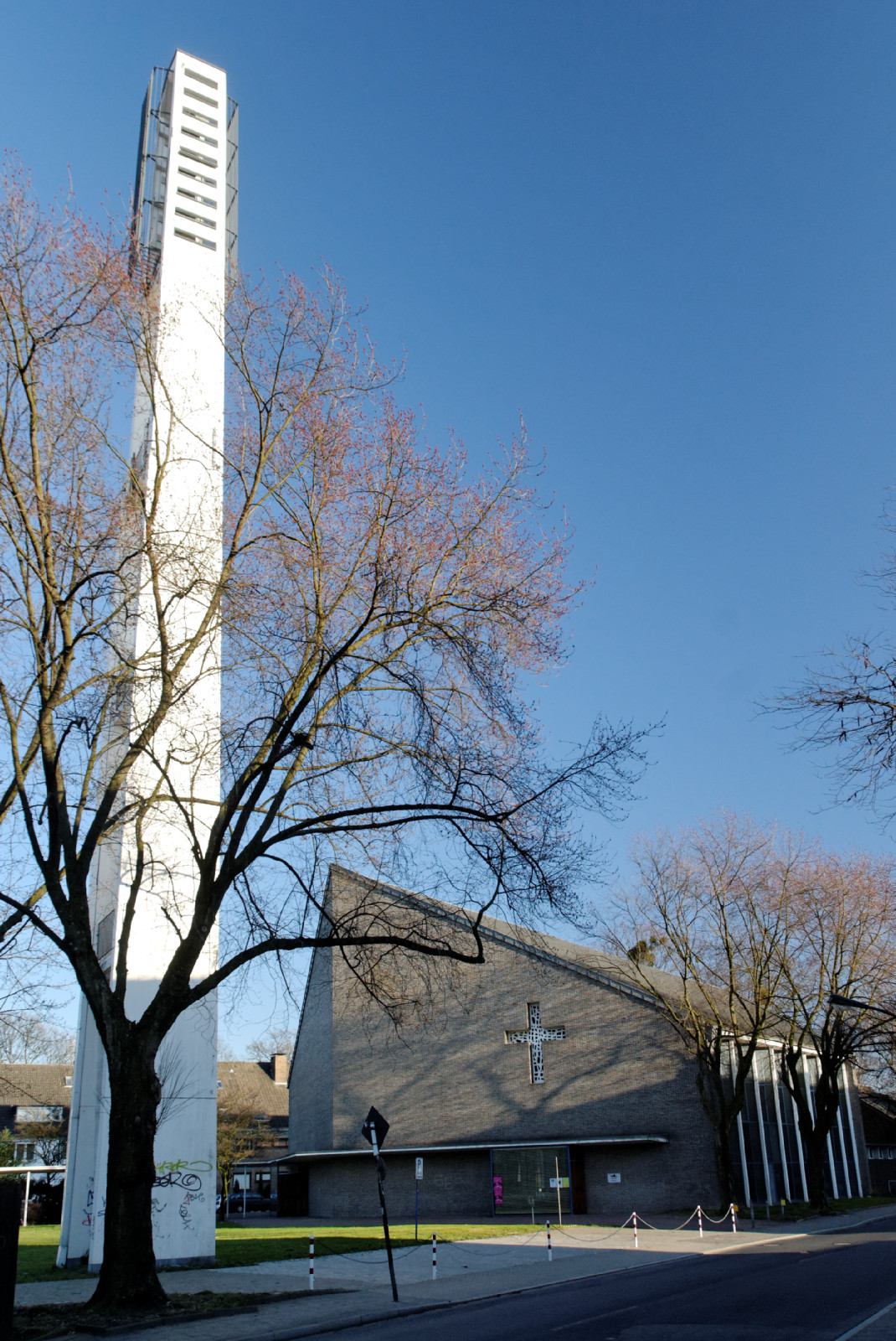 Petrus church in Düsseldorf-Unterrath, Germany